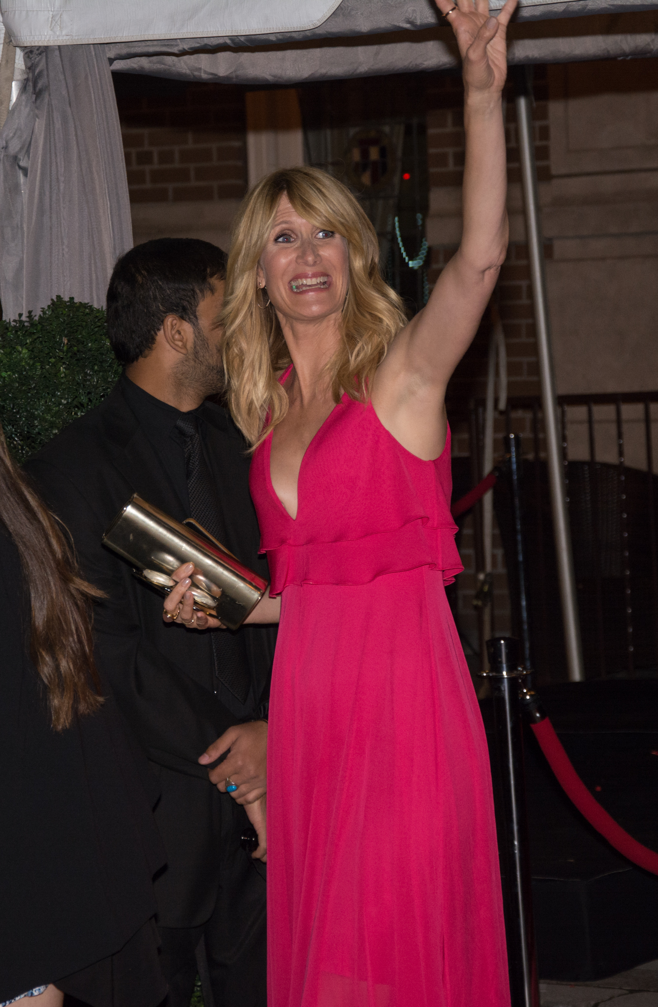 Actress Laura Dern arriving for the Hollywood Foreign Press Association & InStyle's 2014 TIFF Celebration